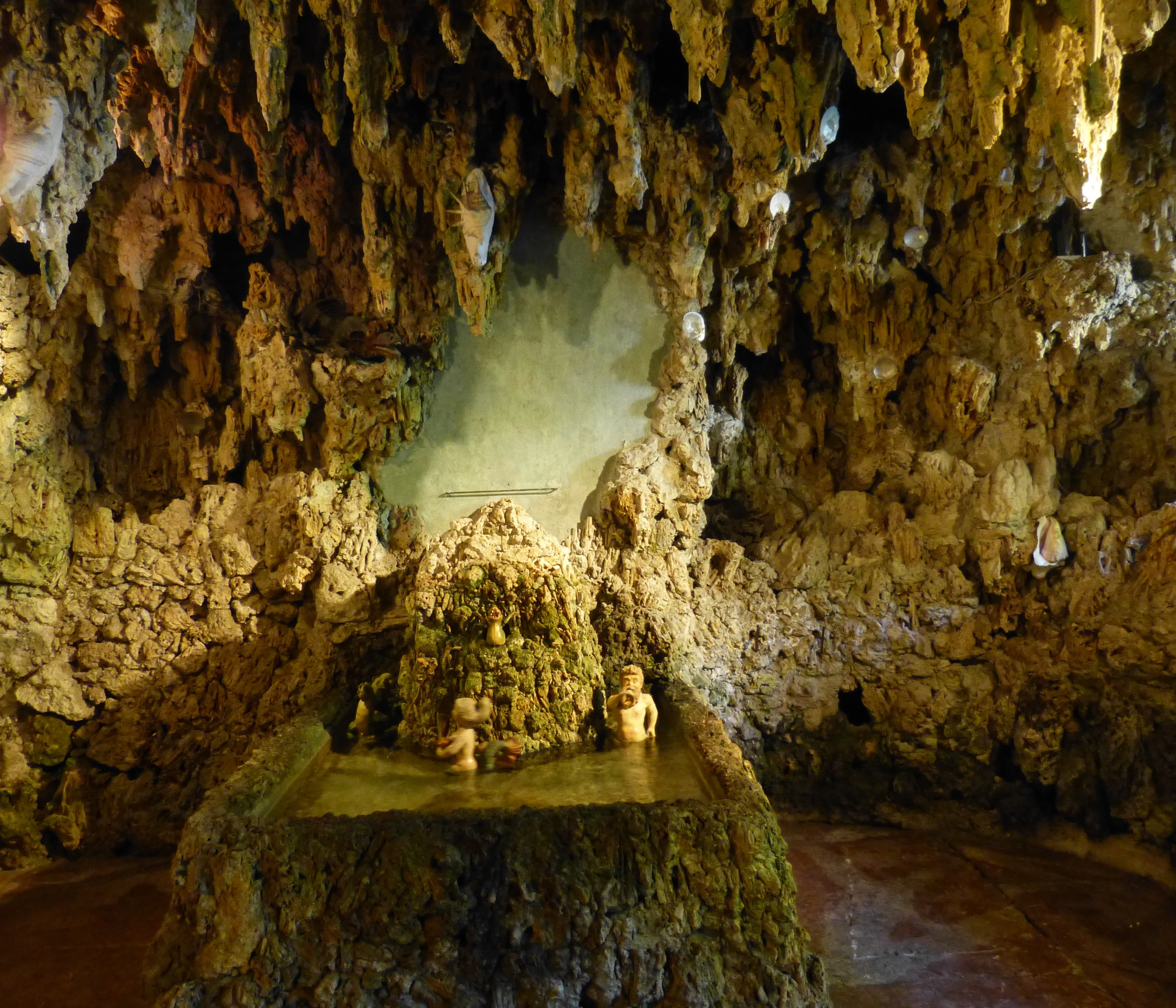 Salzburg ( Austria ). Hellbrunn palace gardens: Grotto of birds ( 1613-15 ).